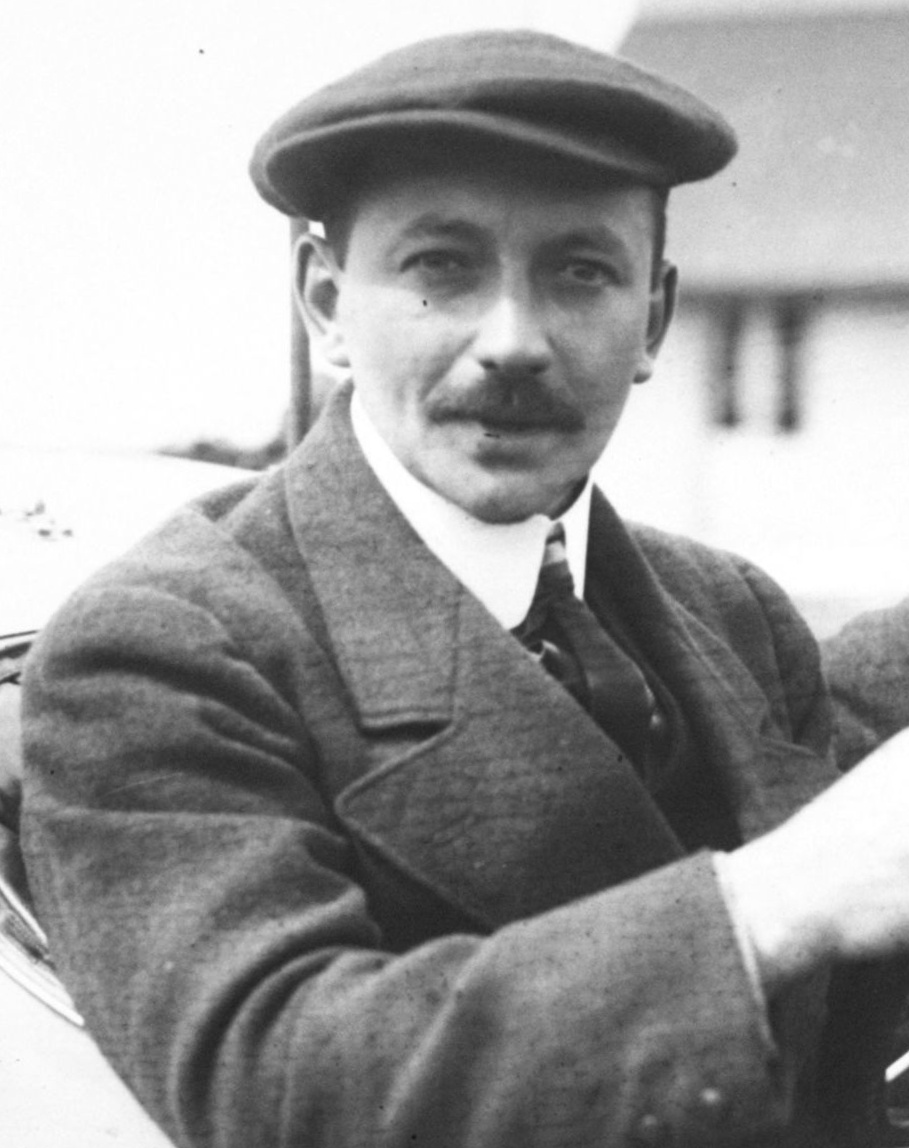 Léon Molon in his Vinot-Deguignand at the 1912 French Grand Prix at Dieppe.